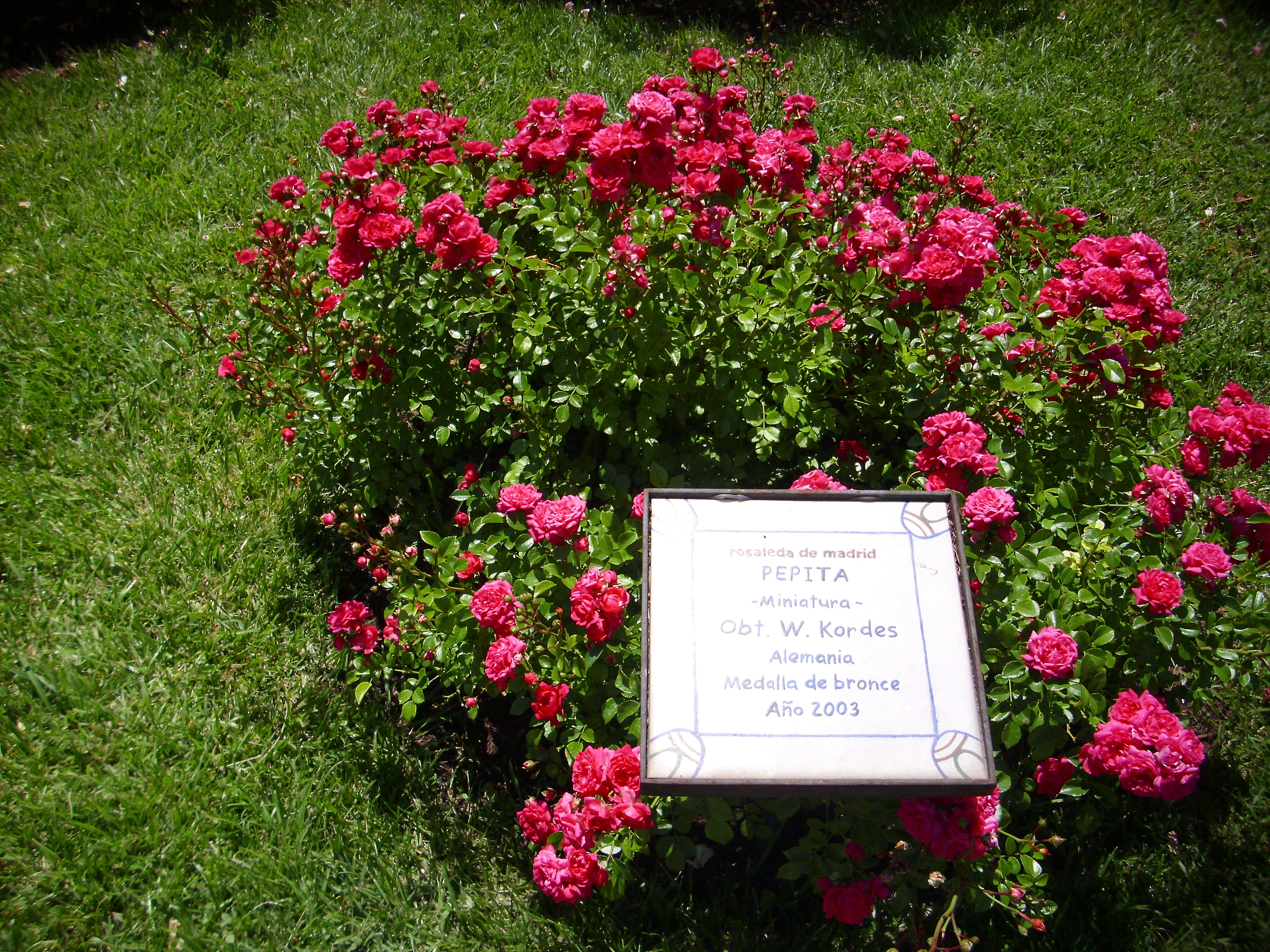 Rosa 'Pepita' Miniature W. Kordes 2009, in the "Rosaleda del Parque del Oeste" in Madrid. Identified by sign. Bronze medal Rosa de Madrid 2003